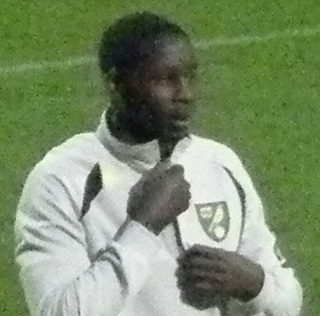 Leon Barnett at Norwich City's friendly match against Ajax on 31 July 2012.